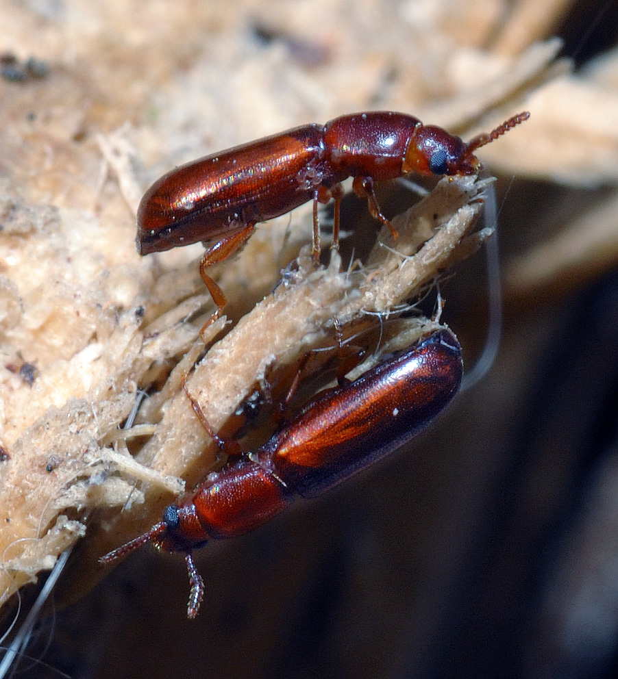 This image shows a 0,16 inch (4 mm) larg beetle of the species Corticeus unicolor (Hypophloeus unicolor). Thanks to Doc Taxon for identifying this animal.